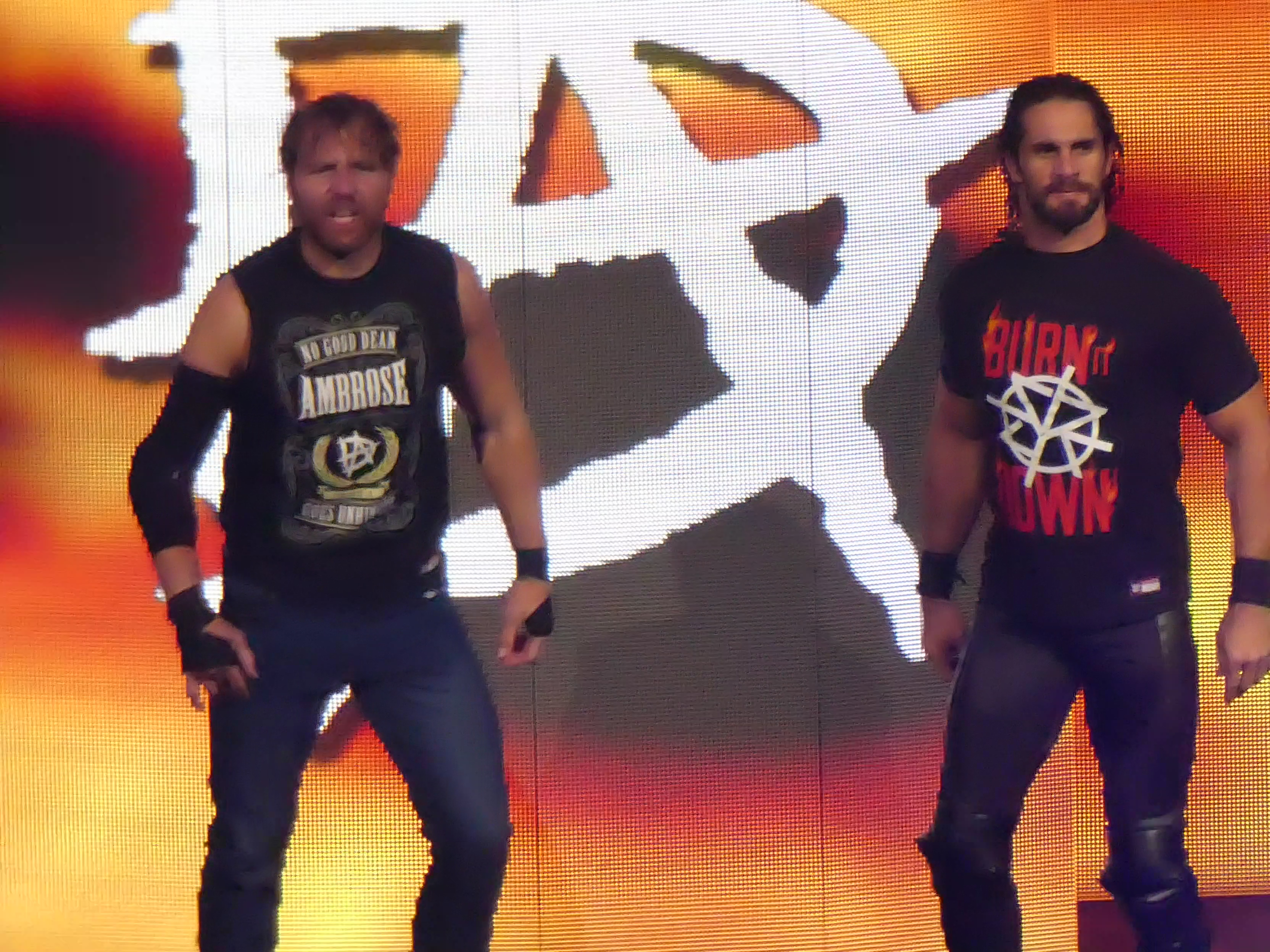 Professional wrestlers Dean Ambrose and Seth Rollins in December 2017